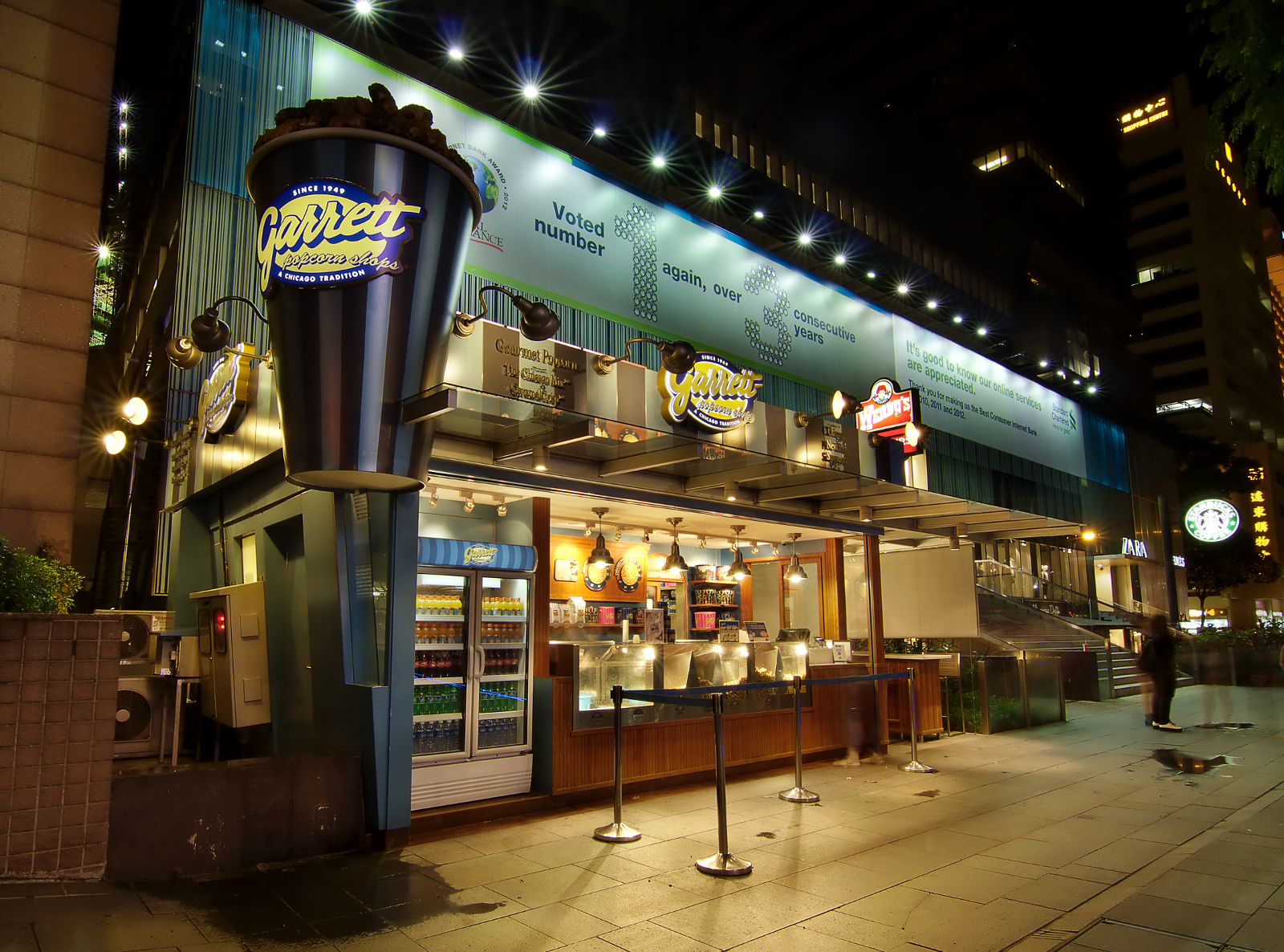 A Garrett Popcorn Shop in front of Liat Towers on Orchard Road, Singapore.